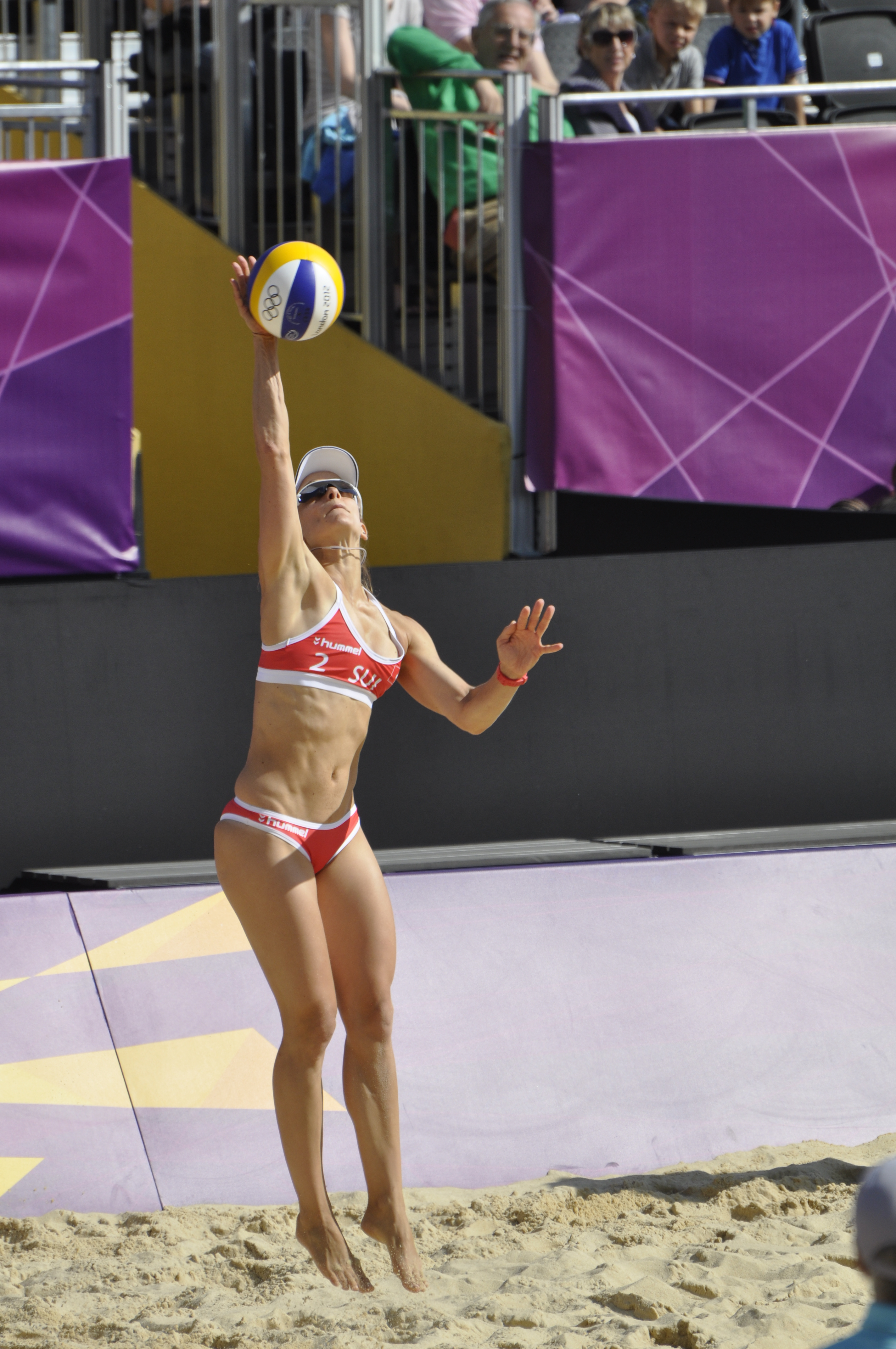 Swiss beach volleyball player Simone Kuhn at the 2012 London Olympics.